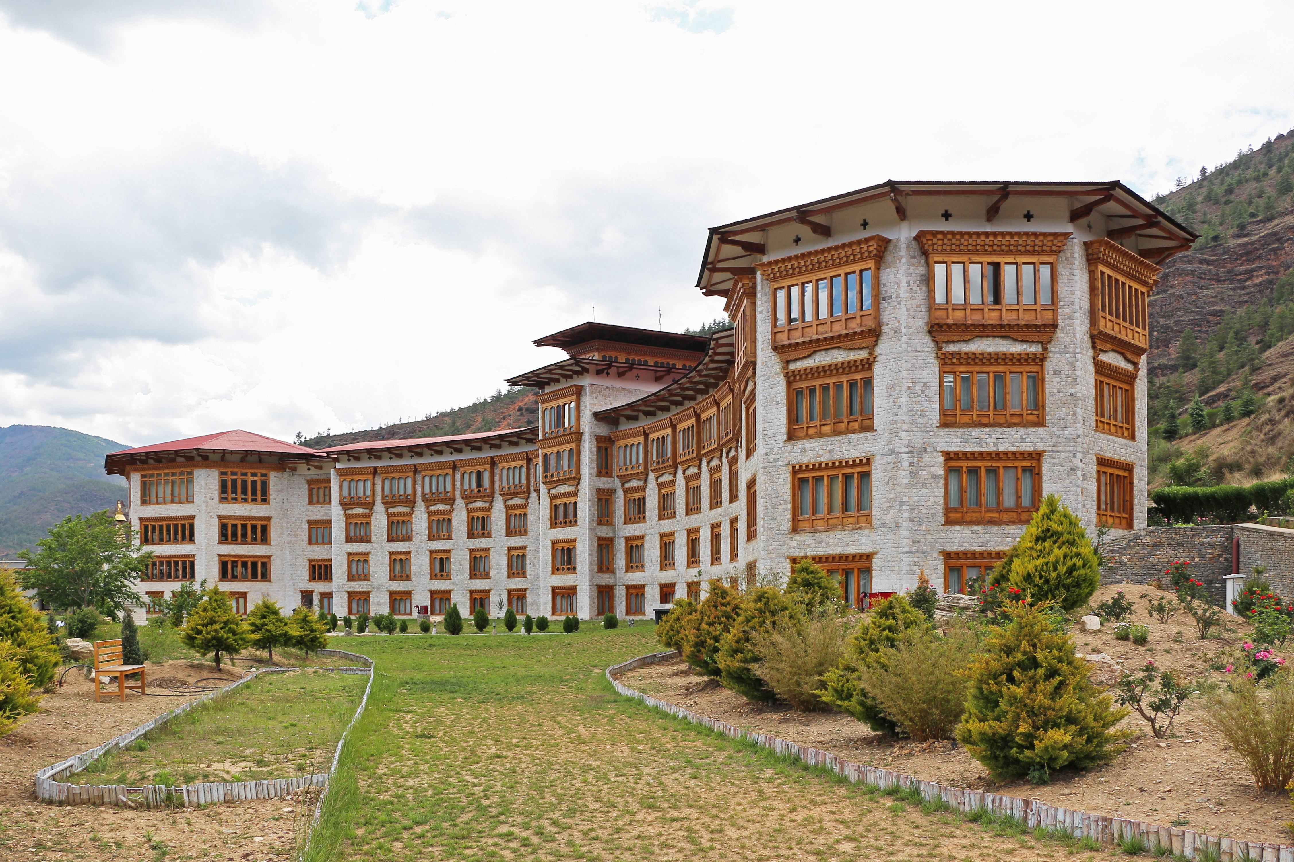 Hotel Le Méridien, Paro, Bhutan